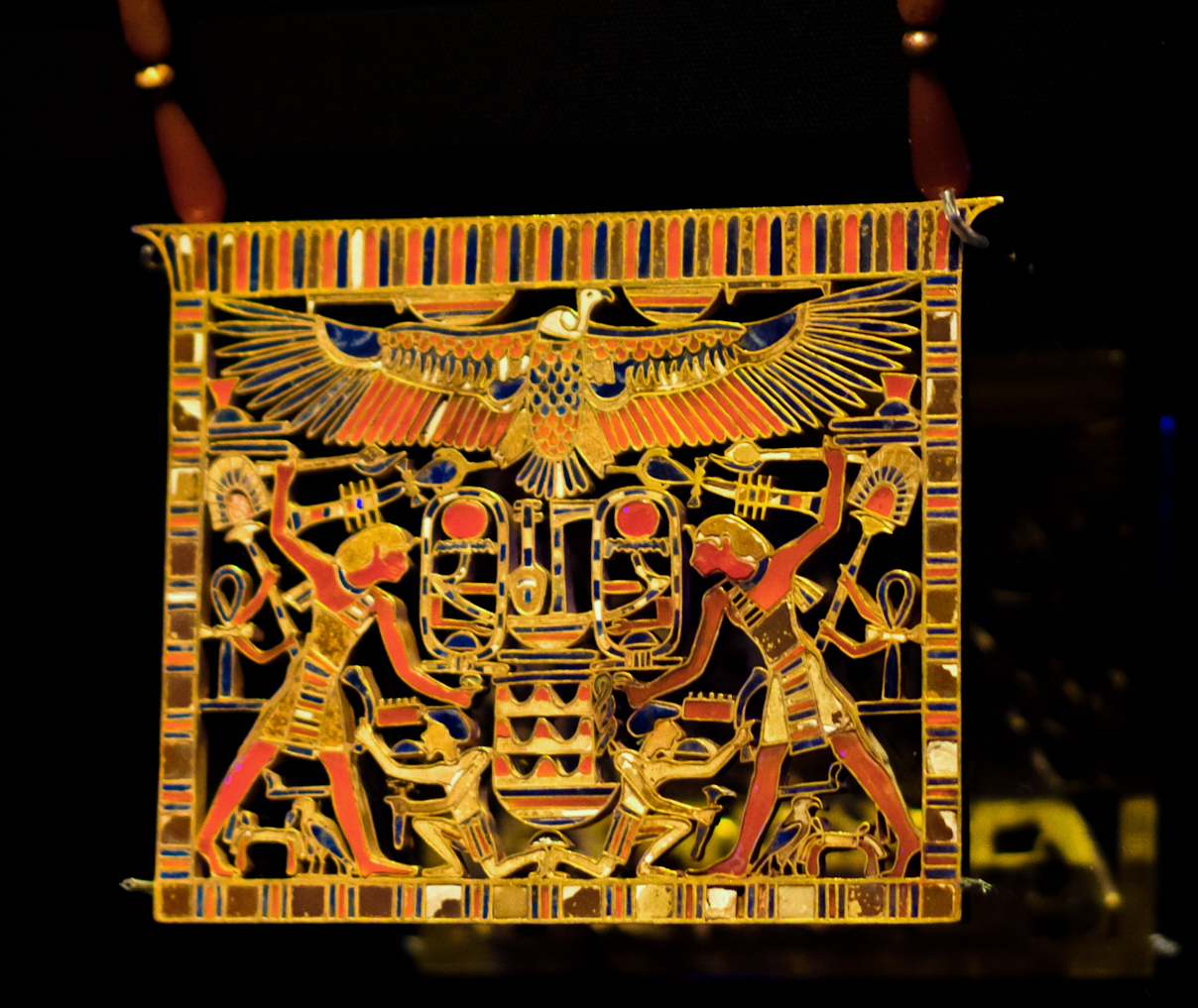 A 12th dynasty Egyptian Middle Kingdom pectoral made of gold and semi-precious stones (carnelian, turquoise, and lapis lazuli) belonging to Mereret, the daughter of king Senusret III and sister of king Amenemhat III.[1] The pectoral shows the cartouche or royal name of pharaoh Amenemhat III and depicts this king triumphantly defeating his enemies. It was discovered in the Dahshur tomb of Mereret which is located within the pyramid complex of Senusret III's own tomb. This photo was taken at the King Tut exhibition at the Pacific Science Center in Seattle, Washington State, USA.